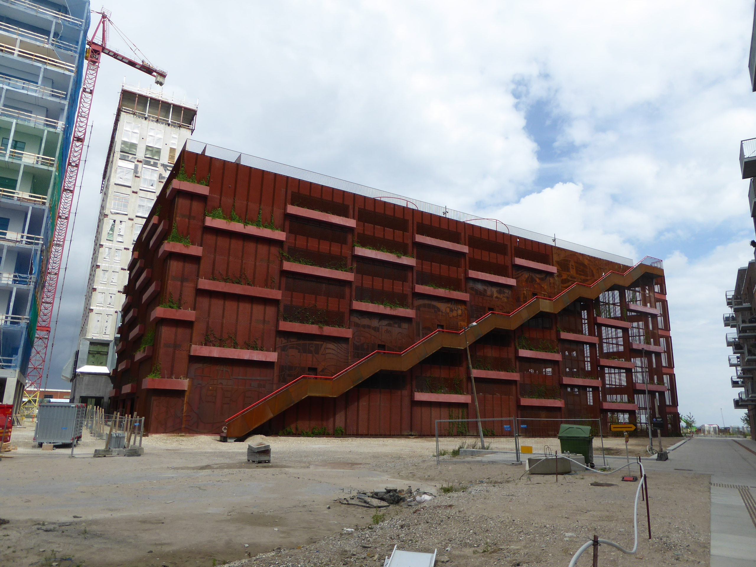 The parking building Lüders at the future Sankt Petersborg Plads in Nordhavn in Copenhagen.